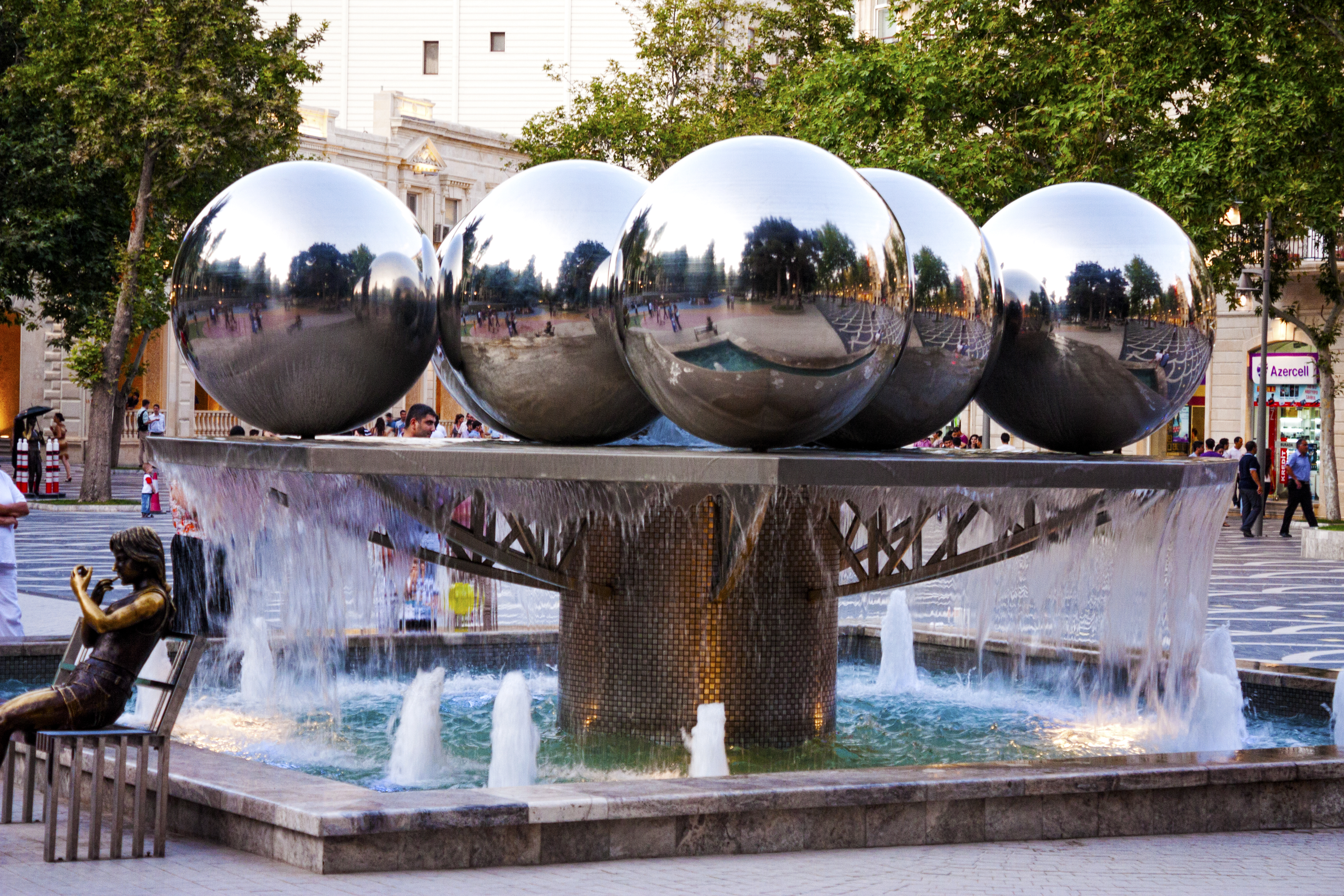 Fountain "Balls"